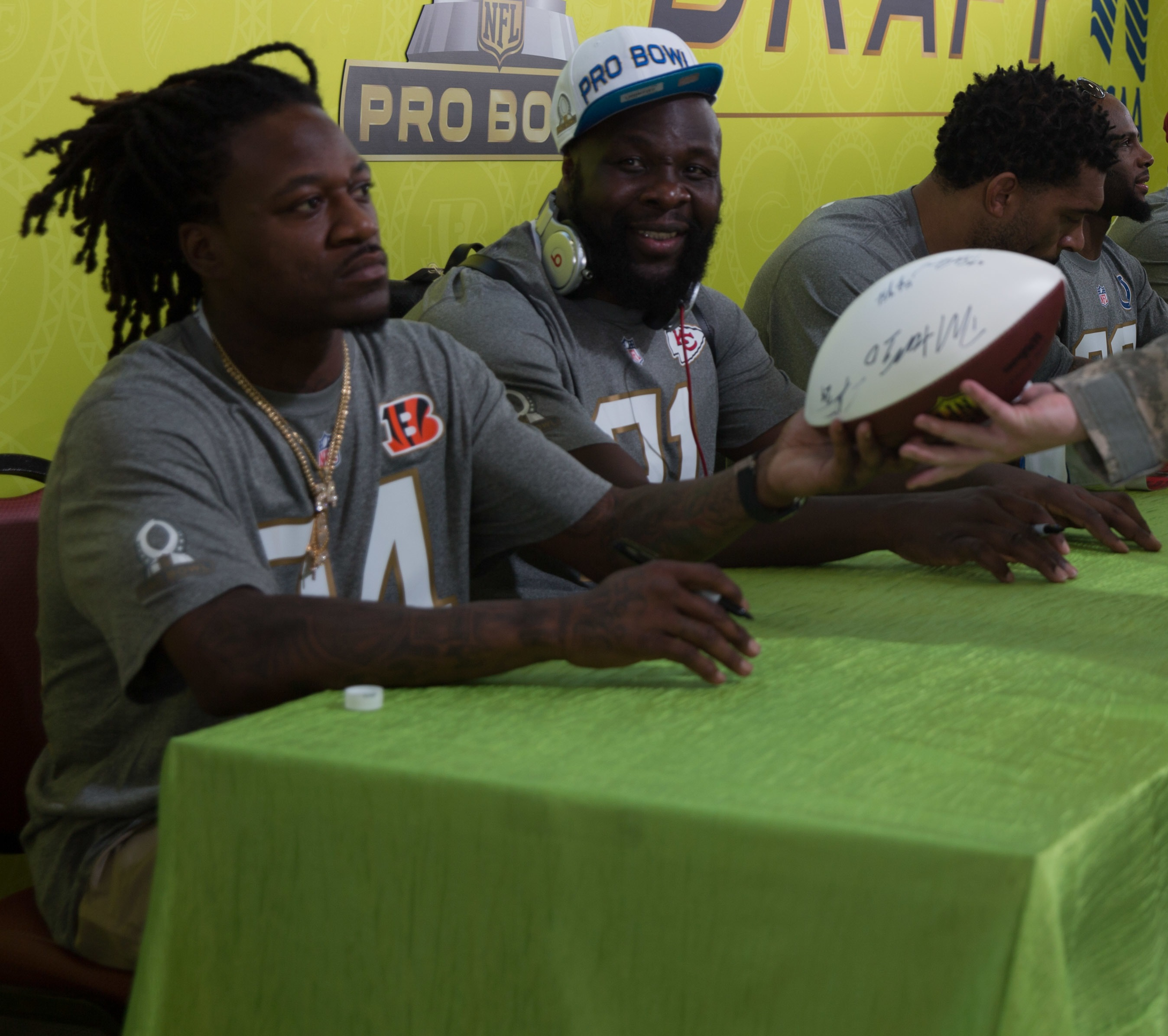 Adam Jones and Tamba Hali during the 2016 Pro Bowl Draft on Jan. 27 at Wheeler Army Airfield, Hawaii. (Photo by Sgt. Daniel K. Johnson, 25th Combat Aviation Brigade Public Affairs)